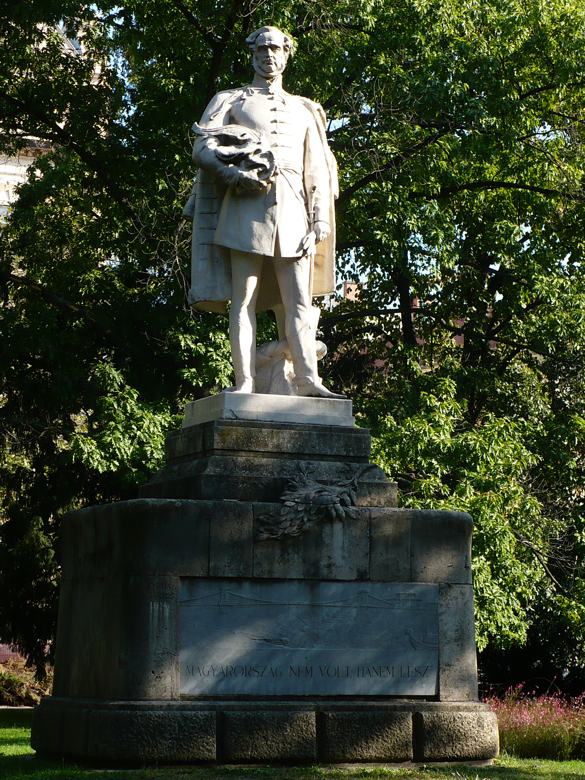 Széchenyi István